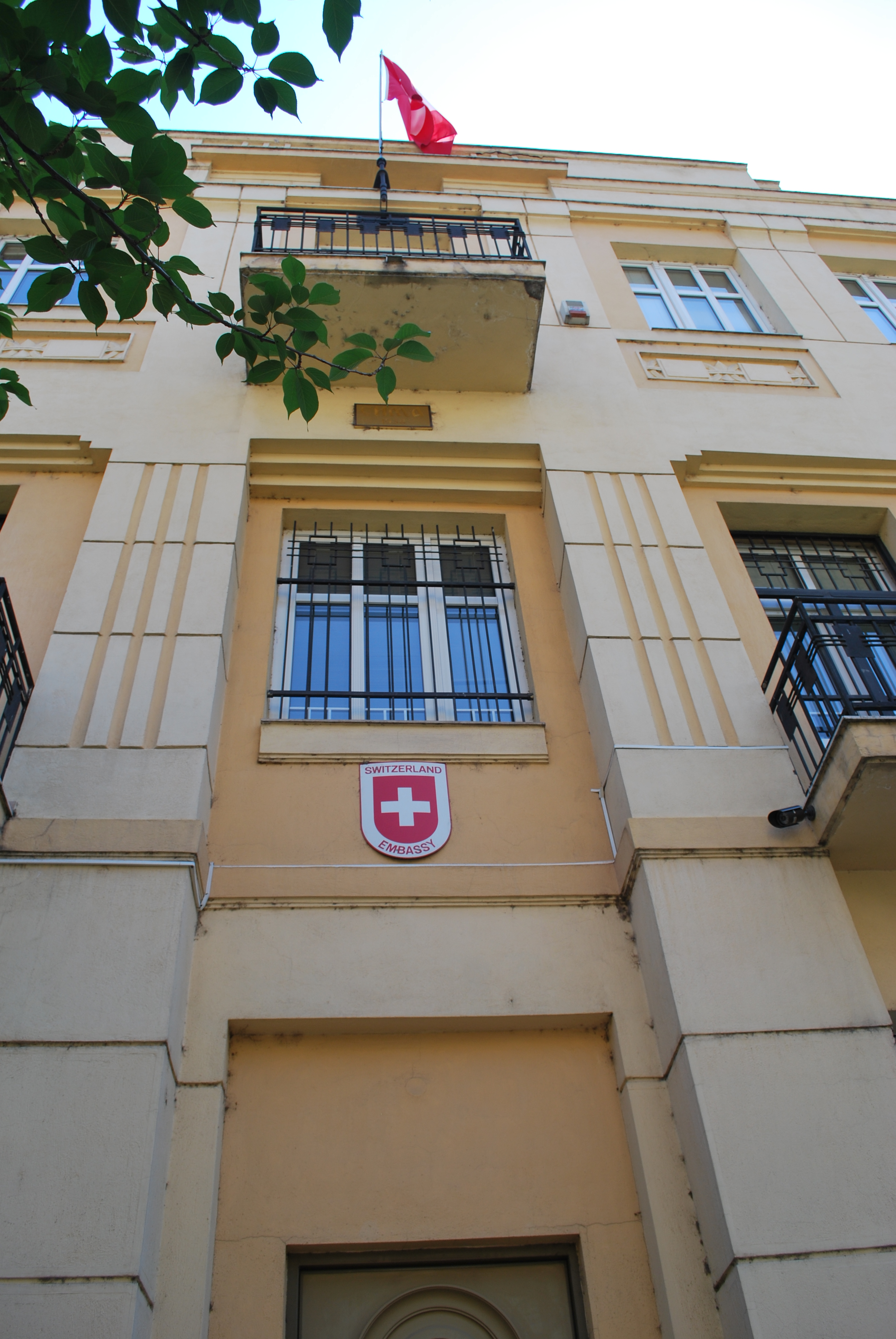 Skopje, Macedonia